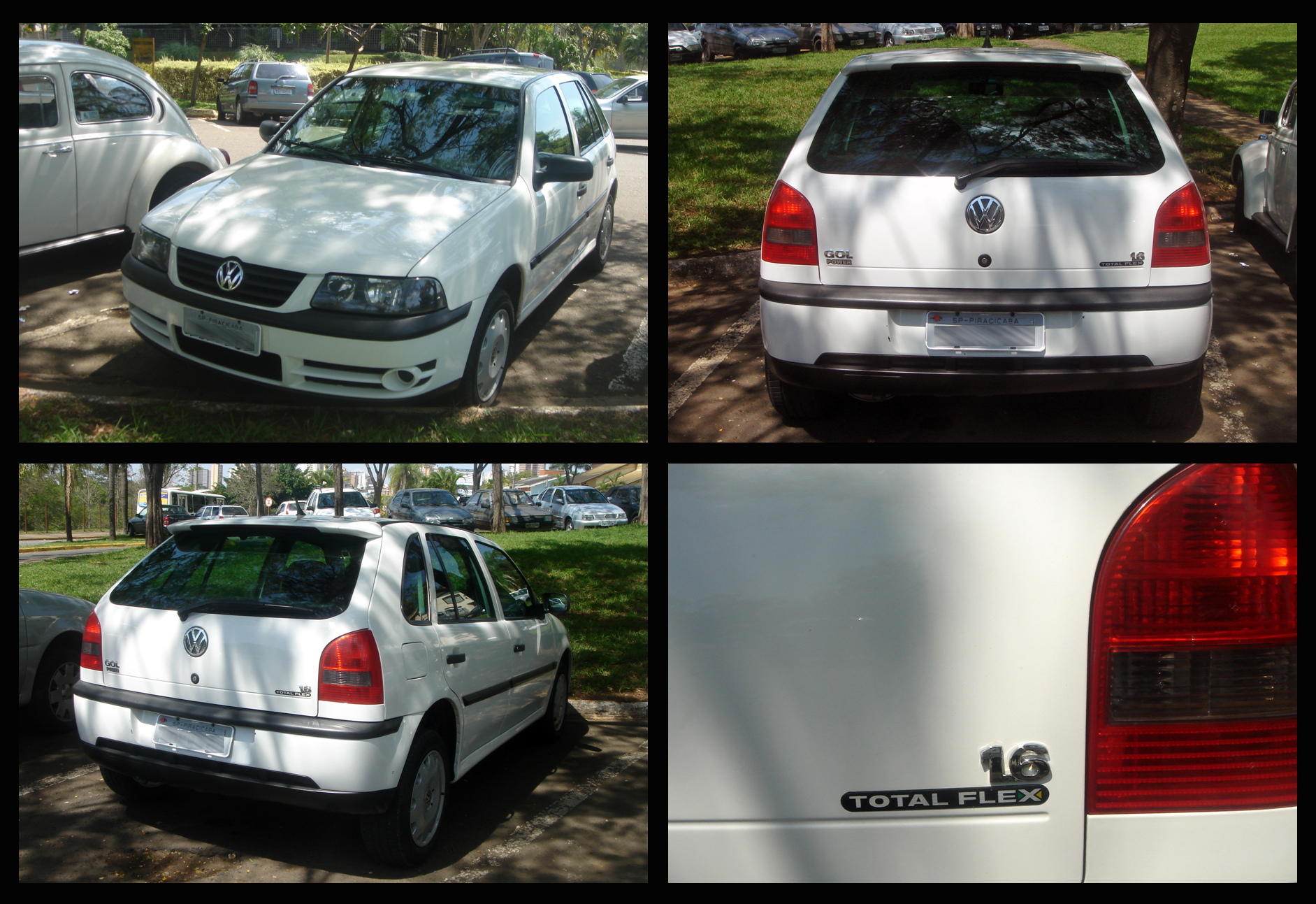 The Brazilian 2003 Volkswagen Gol Mk3 1.6 Total Flex (four views), the first modern commercial flexible-fuel automobile capable of running with any fuel blend between E25 to E100.